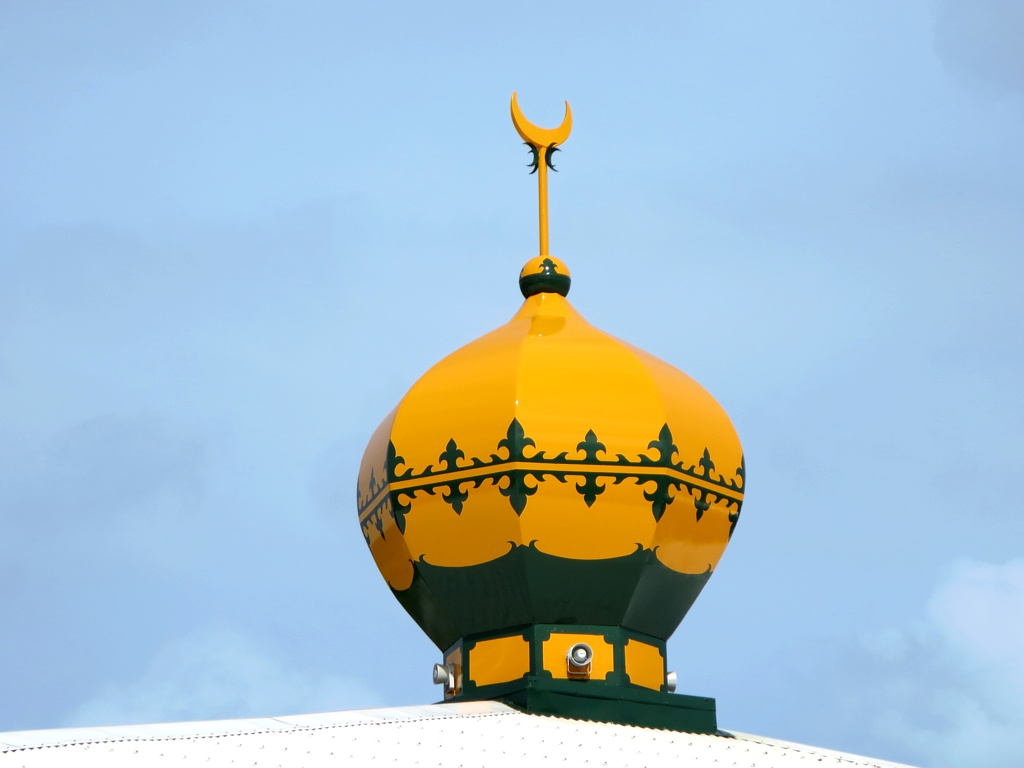 The bright yellow dome of the mosque is a focal point of the Malay kampong on Home Island, Cocos (Keeling) Islands.